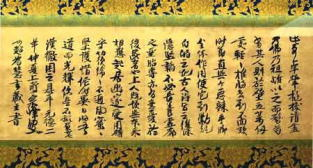 Certificate of Buddhist Spiritual Achievement (印可状, inkajō) for Kanzan Egen (関山慧玄).